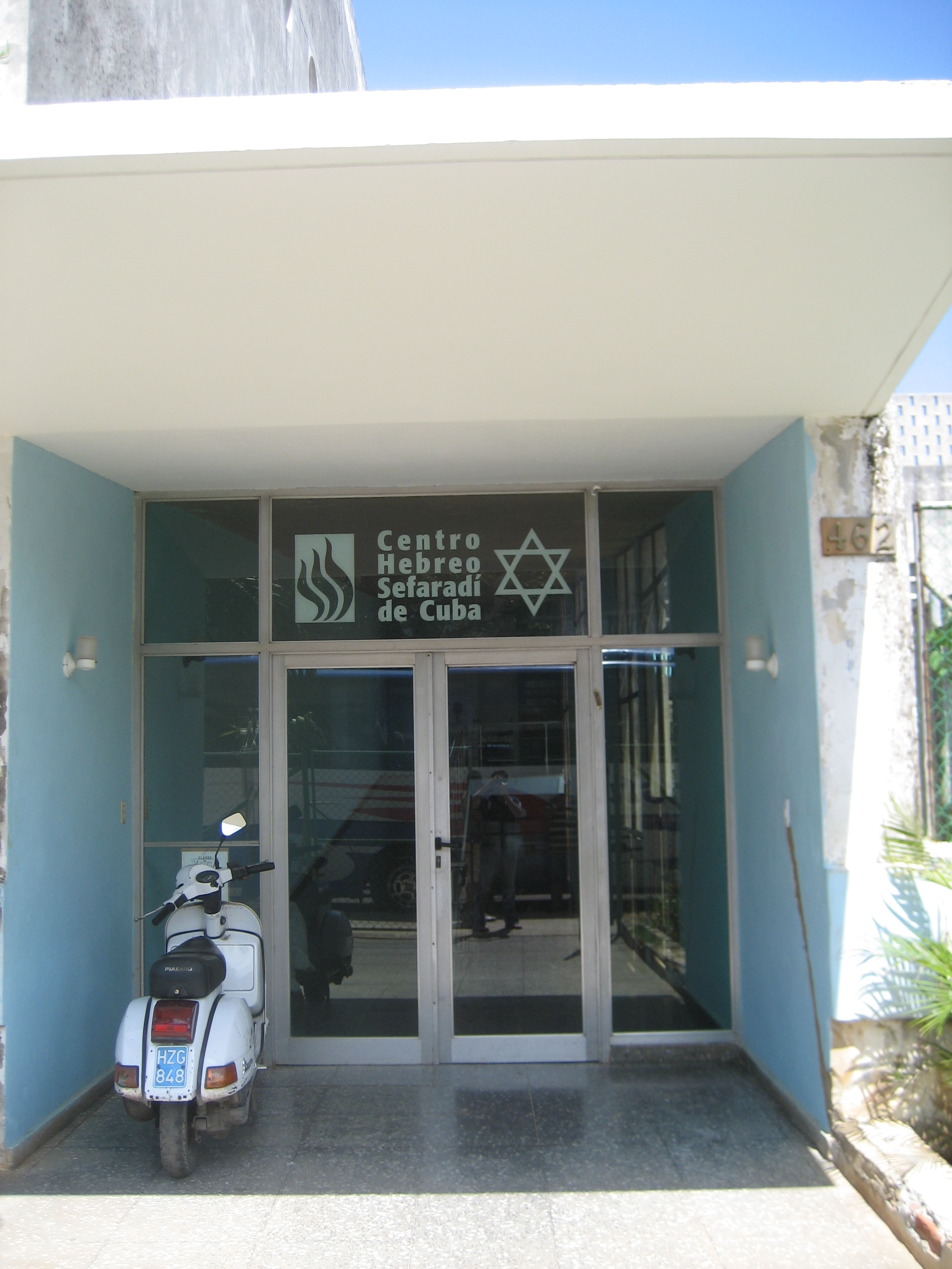 Exterior of the Centro Sefaradi in Havana, Cuba.